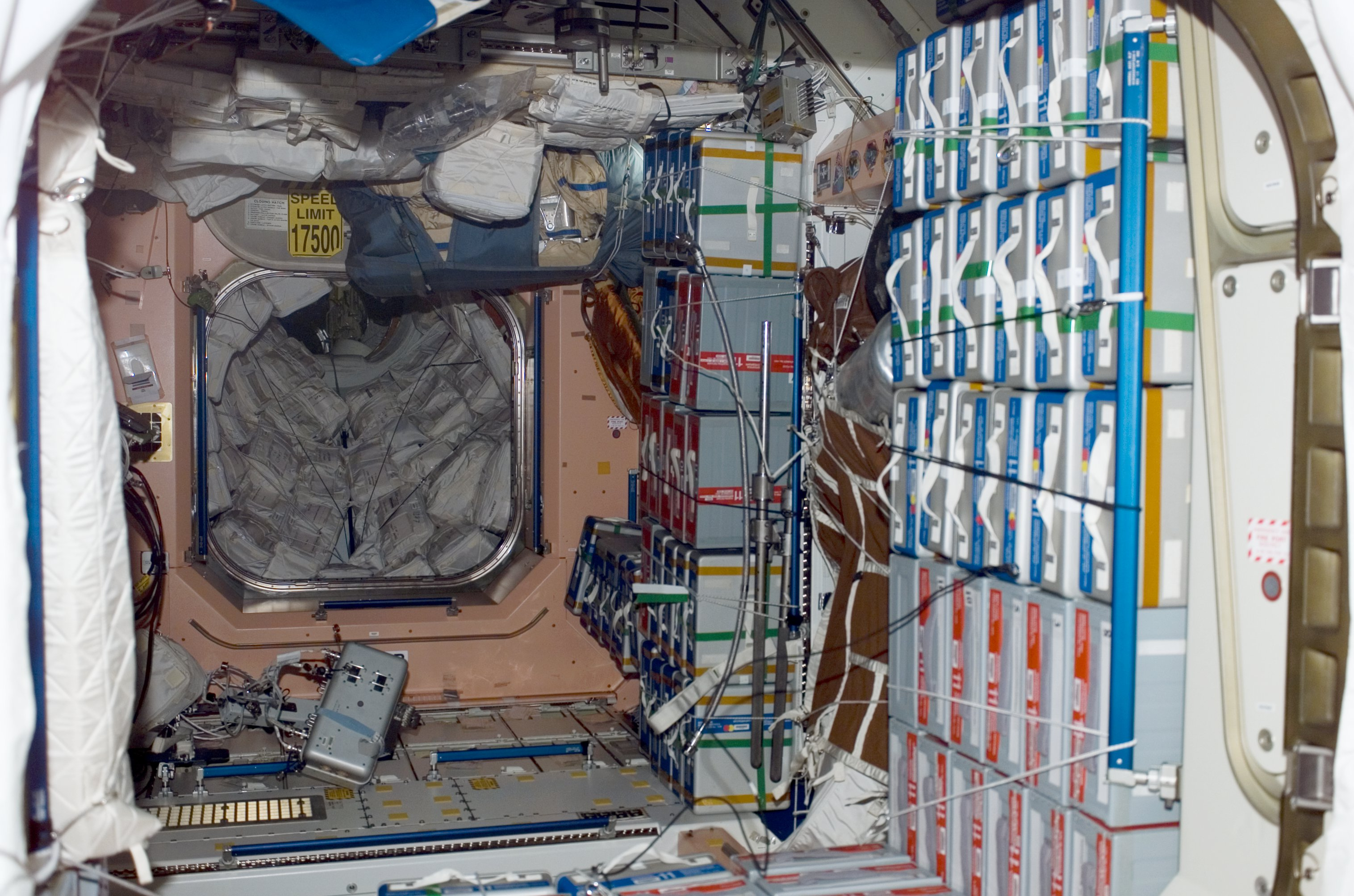 View of the stowage bags packed into the Pressurized Mating Adapter 1 PMA1 and Food Canisters lined up against the wall in the Node 1/Unity module of the ISS. This photo was taken by the STS-114 crew. Image ID: s114e5940